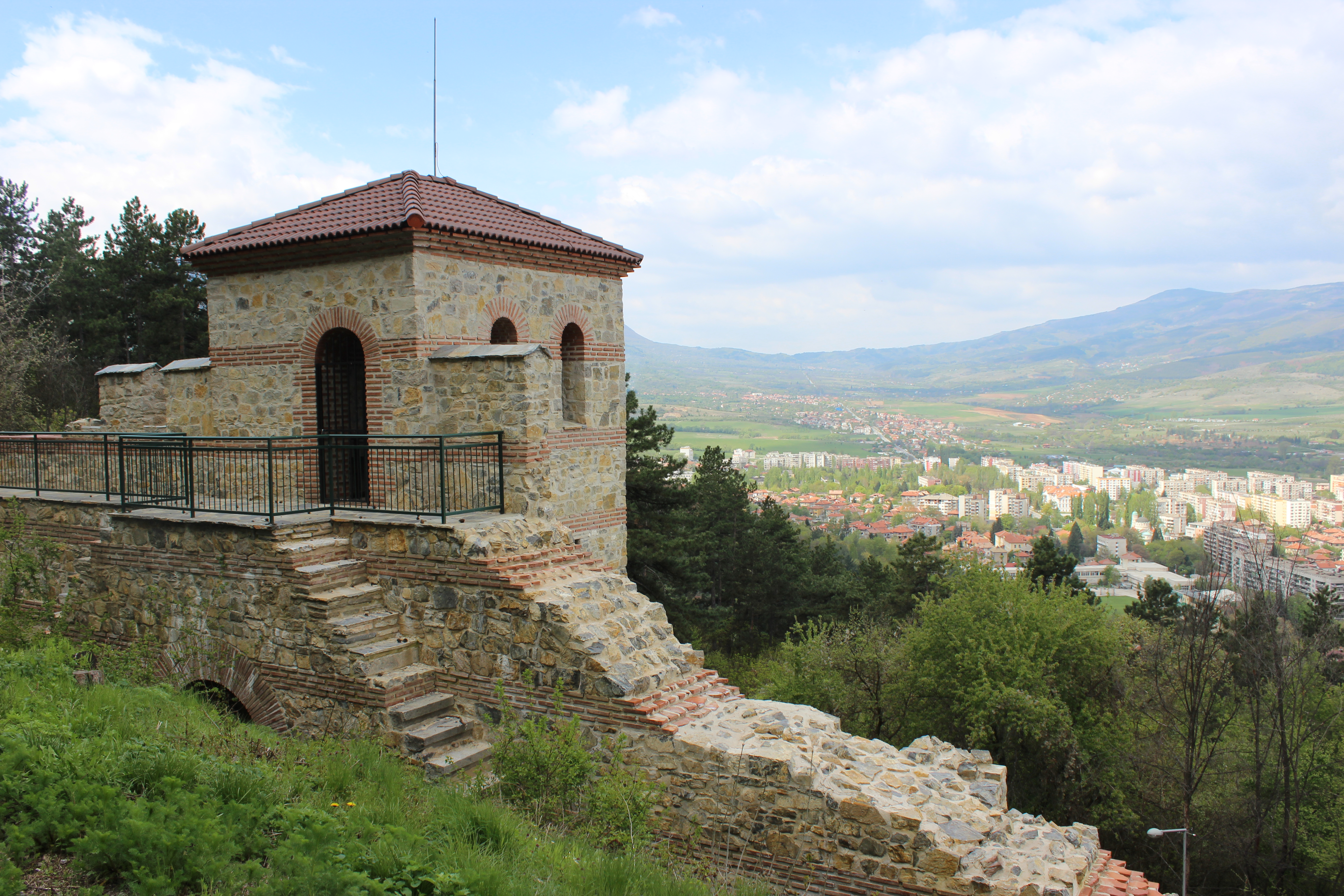 Late Ancient and Medieval Fortres "Hisarlaka", Kyustendil, Bulgaria.